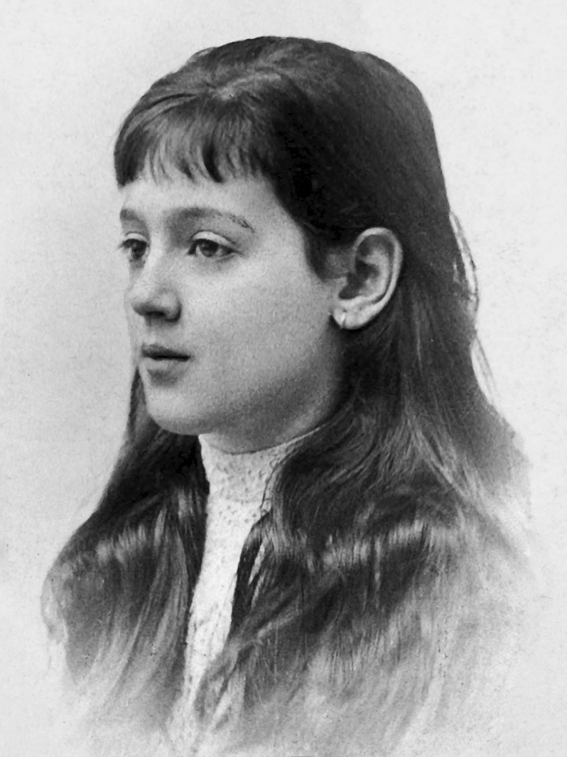 Carte-de-visite photograph (albumen print): portrait bust of Melanie Klein aged 7/8 years by Atelier Olga, Vienna.